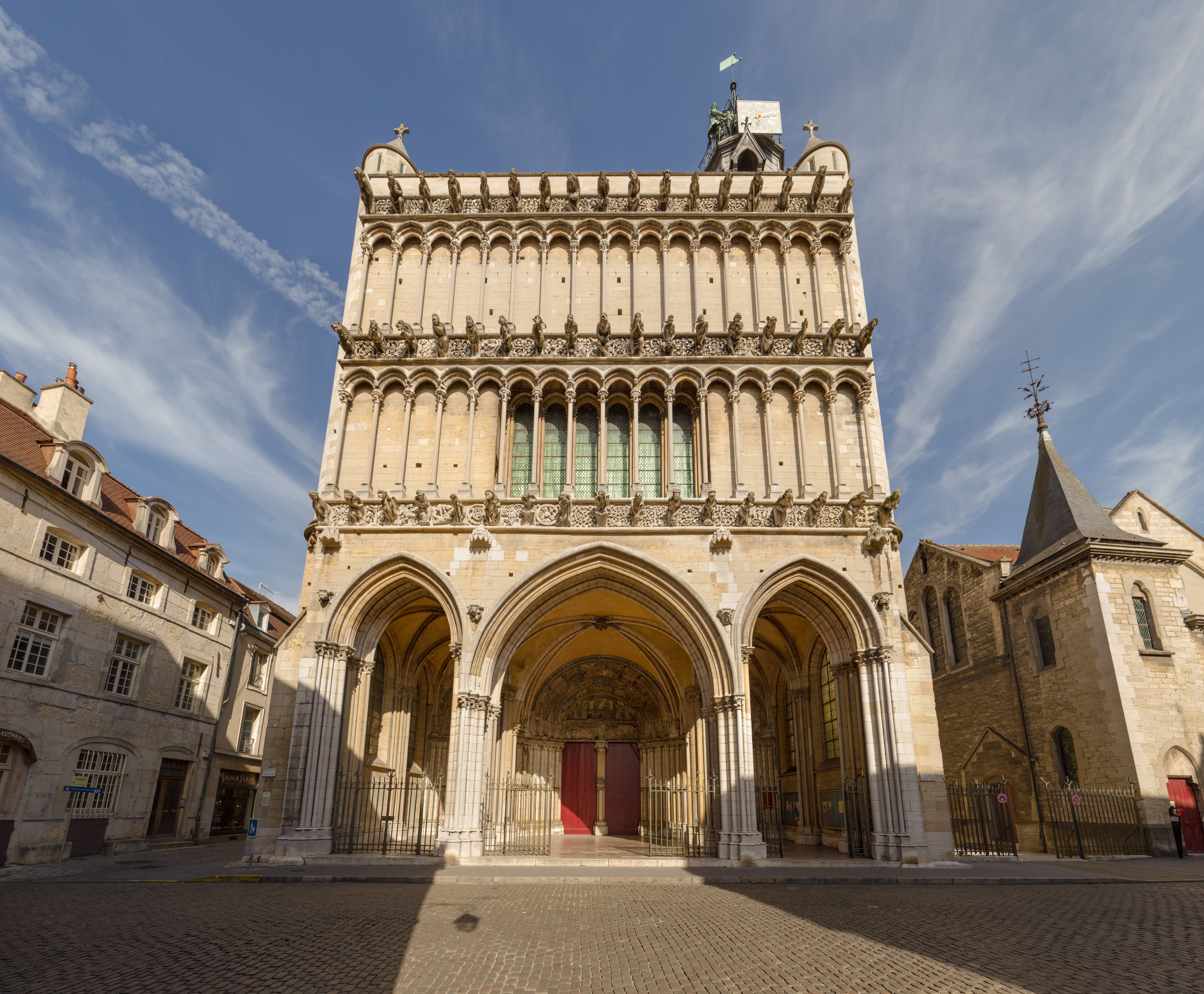 Curch of Notre-Dame de Dijo, from 13th century, in Dijon, Côte d'Or, Burgundy, France.